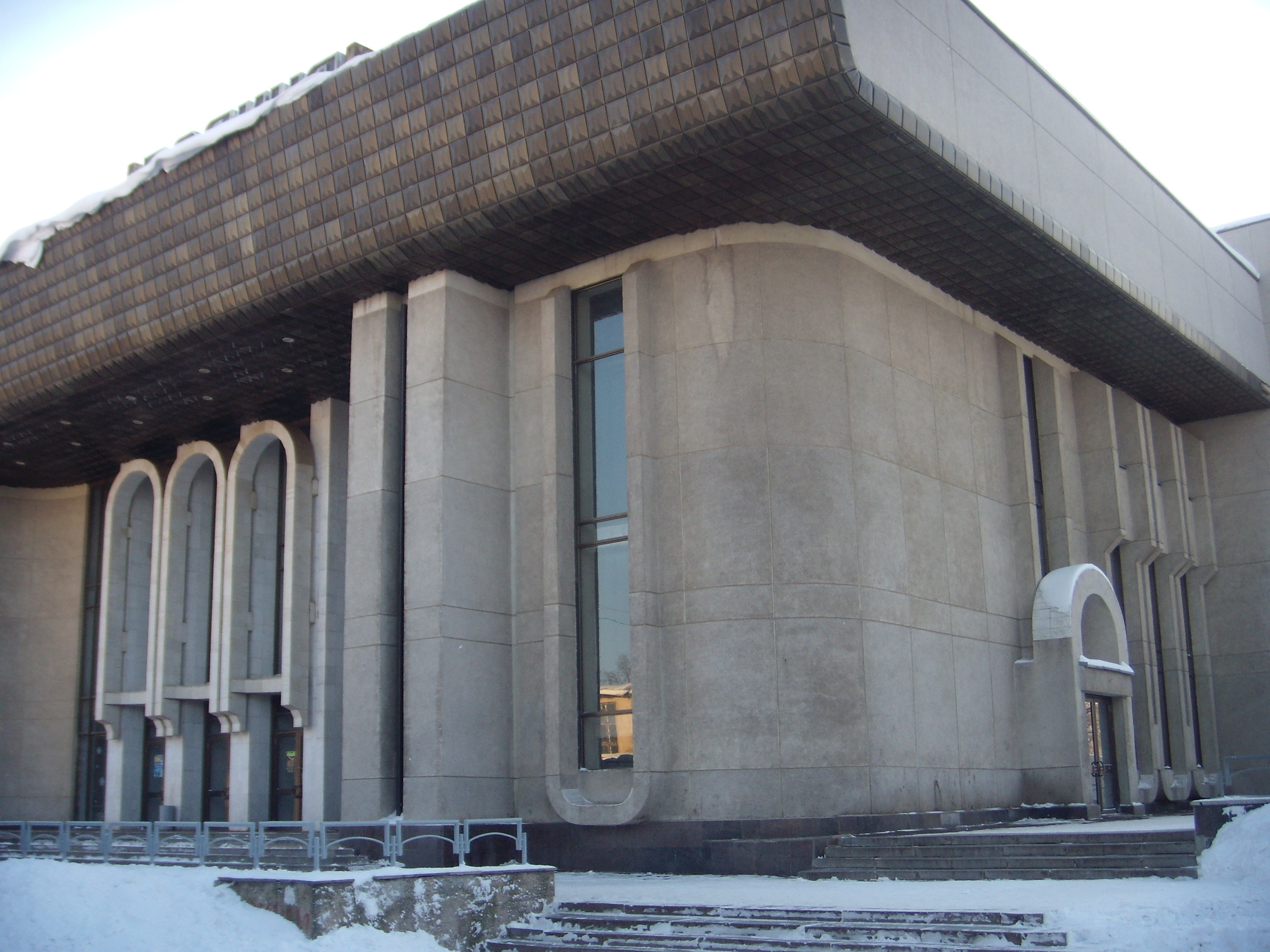 House of culture «Rodina» ("Homeland") of Lepse factory